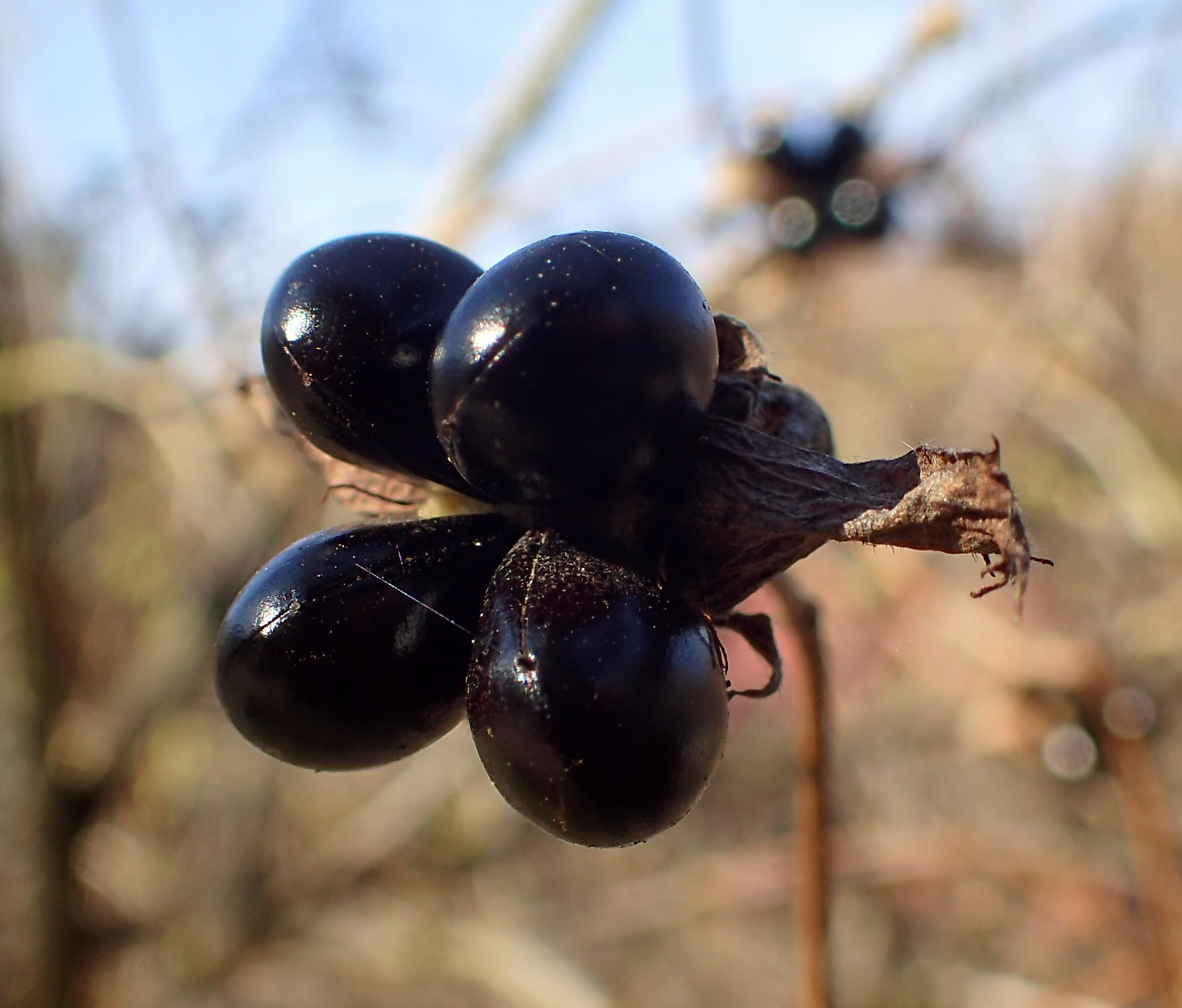 Rhodotypos scandens in arboretum in Glinna, NW Poland. Fruit